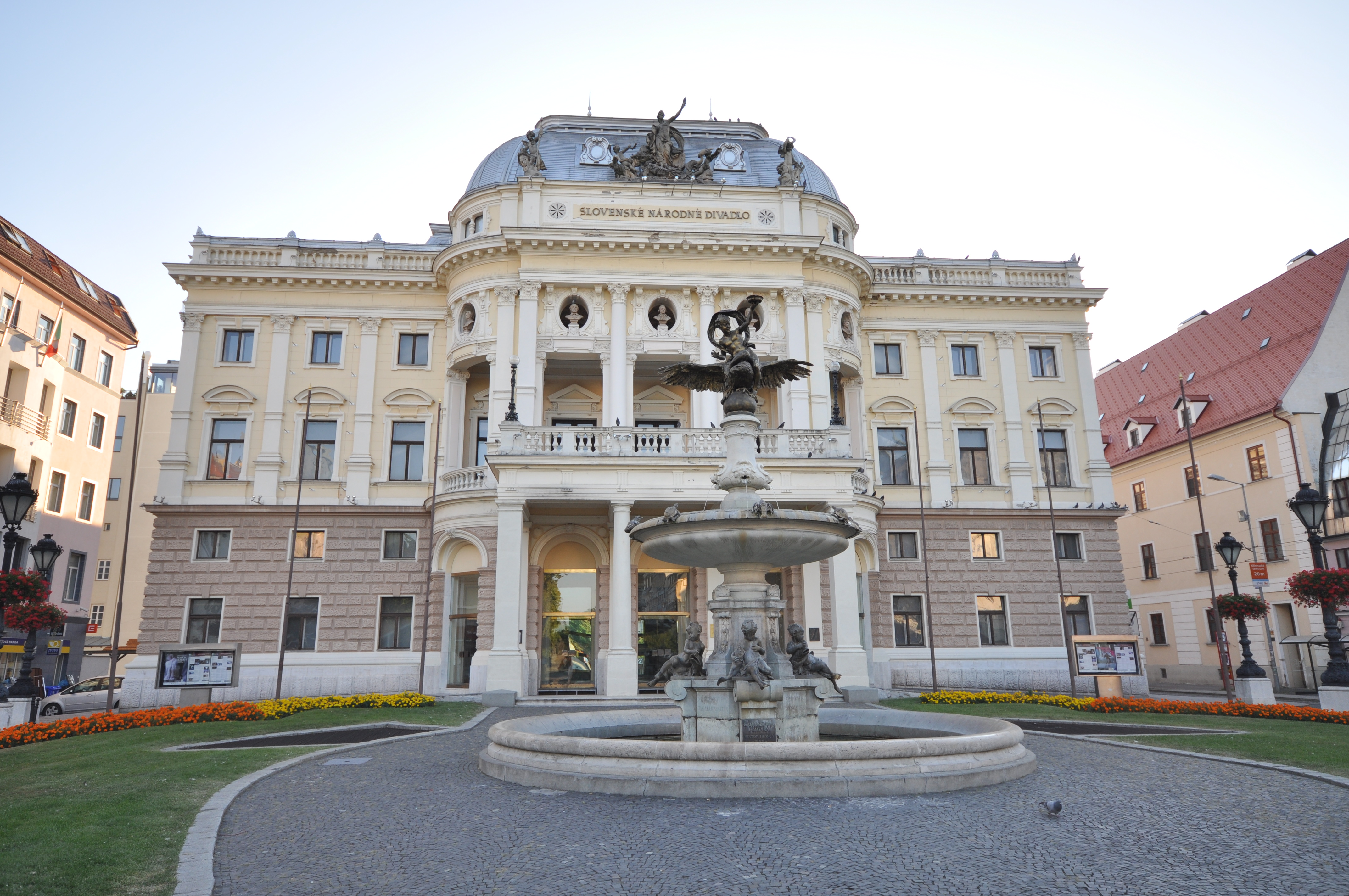 Old Slovak National Theater